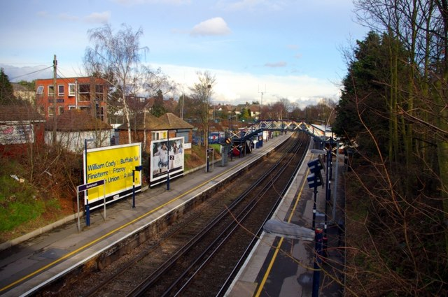 Bexleyheath station Looking down the line towards Dartford from the Avenue Road overbridge.